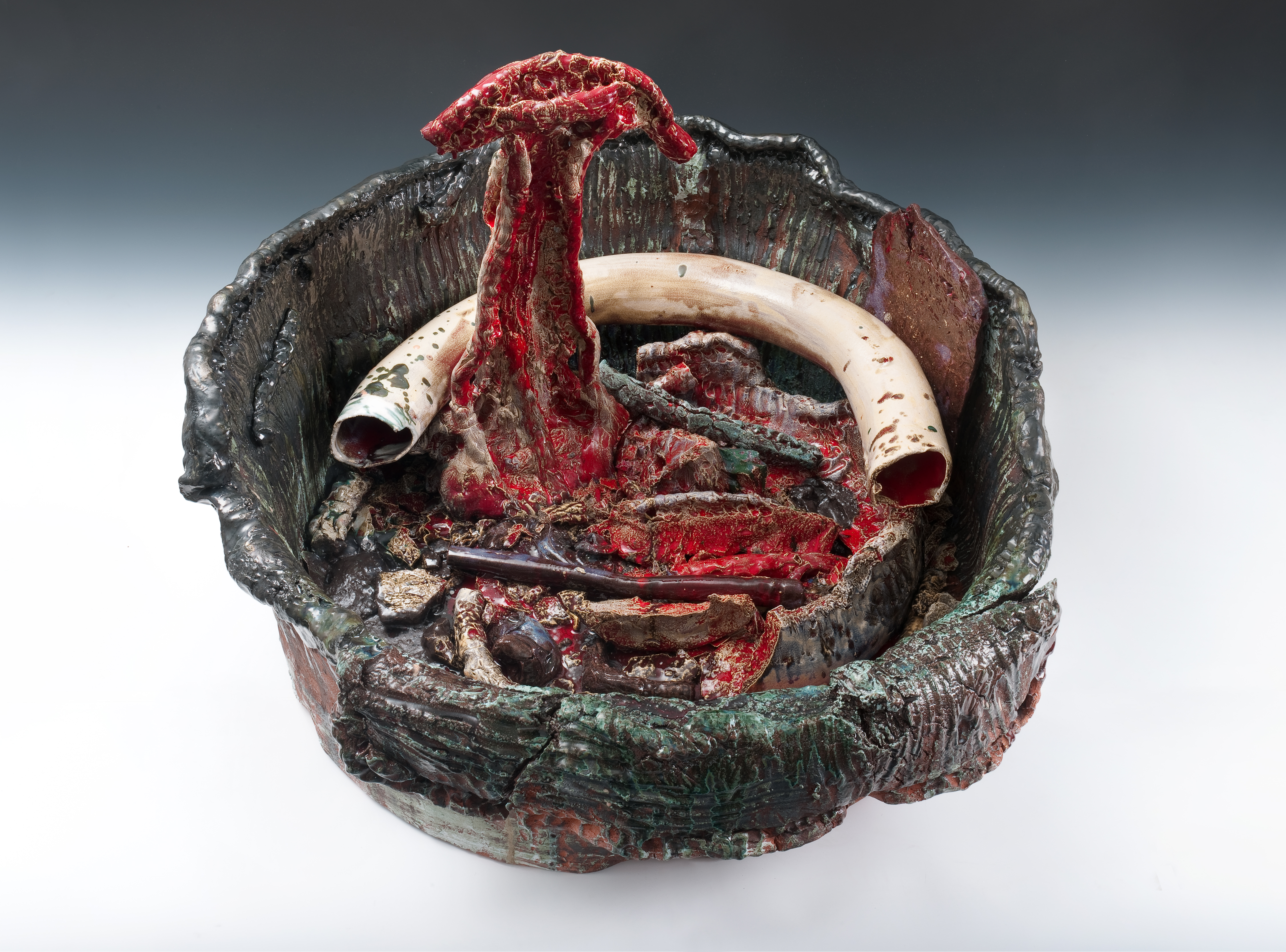 An image of the ceramic work, Basin Theology/Talwin+Ritalin by the artist Sterling Ruby.